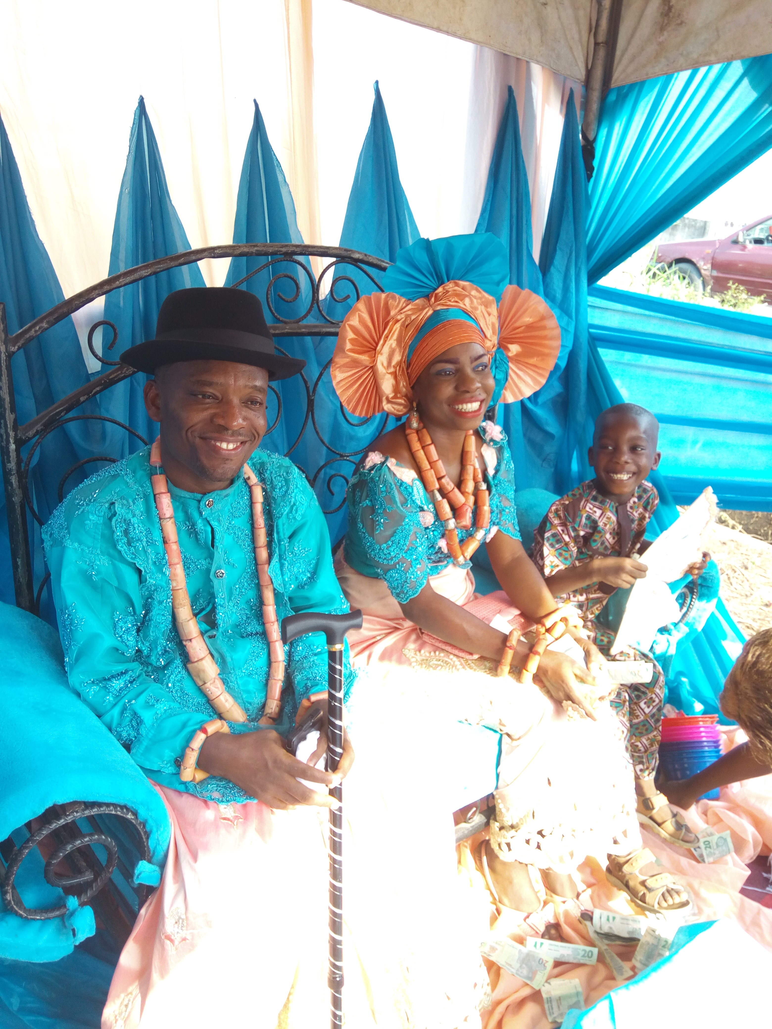 This is an image with the theme "Play" from: Nigeria